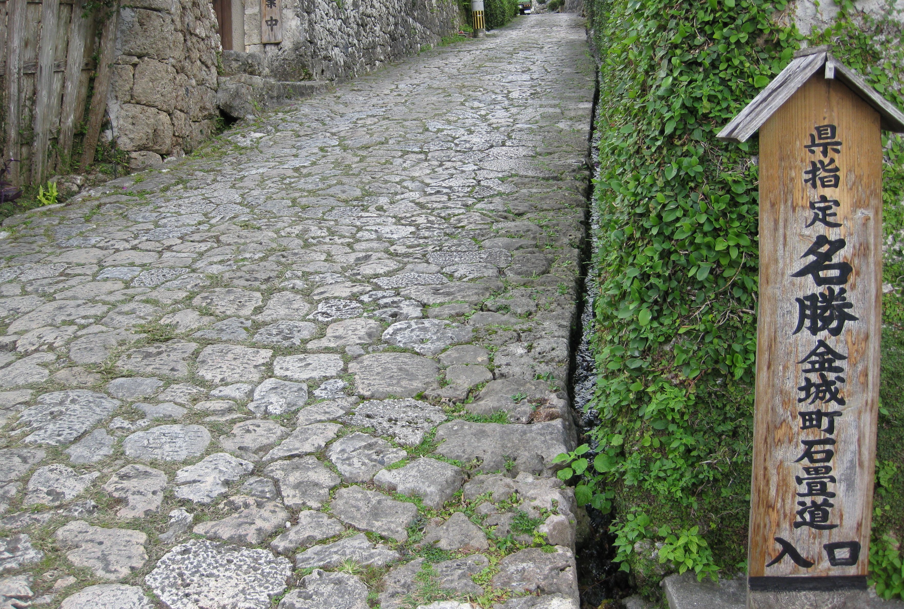 Cobbled Road in Syuri Kinjou, Okinawa, Japan